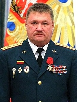 Vladimir Putin and Colonel Valery Asapov, commander of an army motorised rifle brigade was awarded the Order for Services to the Fatherland, IV degree.